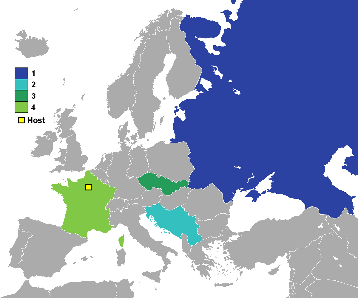 European Nations' Cup 1960 final team ranking, showing: Winner (dark blue) Runner-up (light blue) 3rd (dark green) 4th (light green) Yellow square is host nation (France).